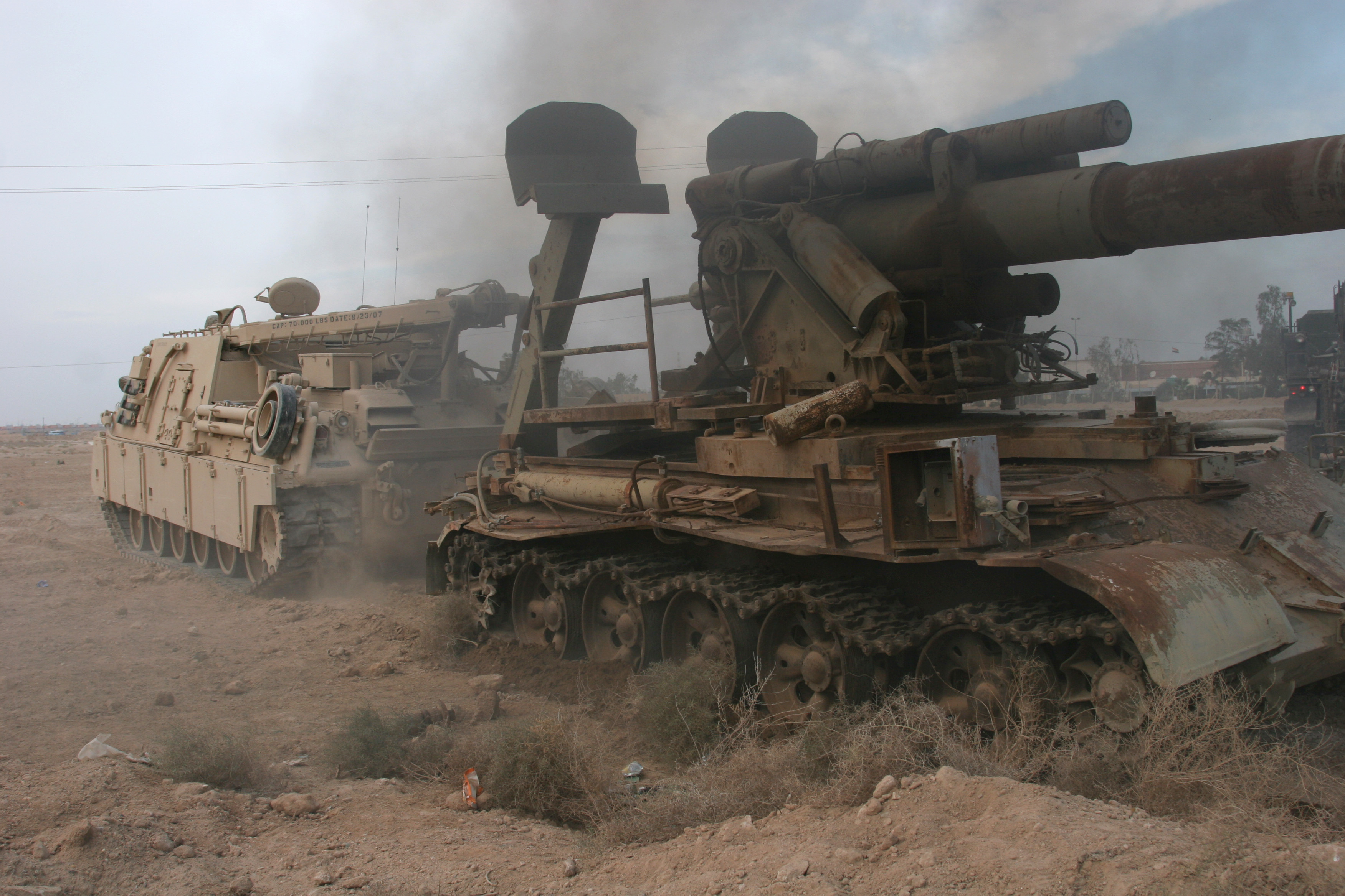 U.S. Marines assigned to Regimental Combat Team 1 use an M-88A2 Hercules recovery vehicle to remove a Koksan self-propelled artillery piece from the Al Anbar University campus in Ramadi, Iraq in November 2008.